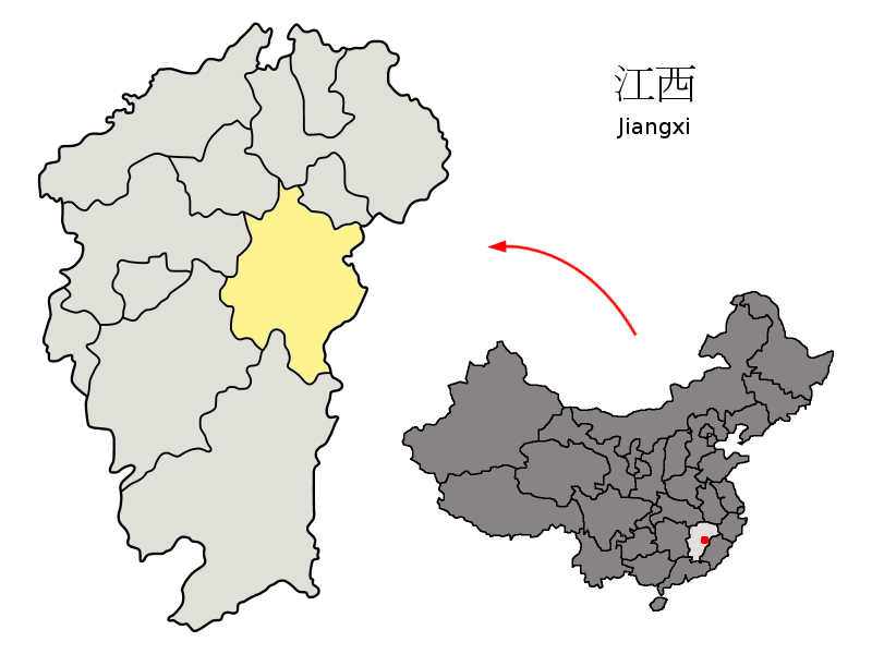 Location of Fuzhou Prefecture (yellow) within Jiangxi Province of China Map drawn in december 2007 using various sources, mainly : Jiangxi Province administrative regions GIS data: 1:1M, County level, 1990 Jiangxi Counties map from